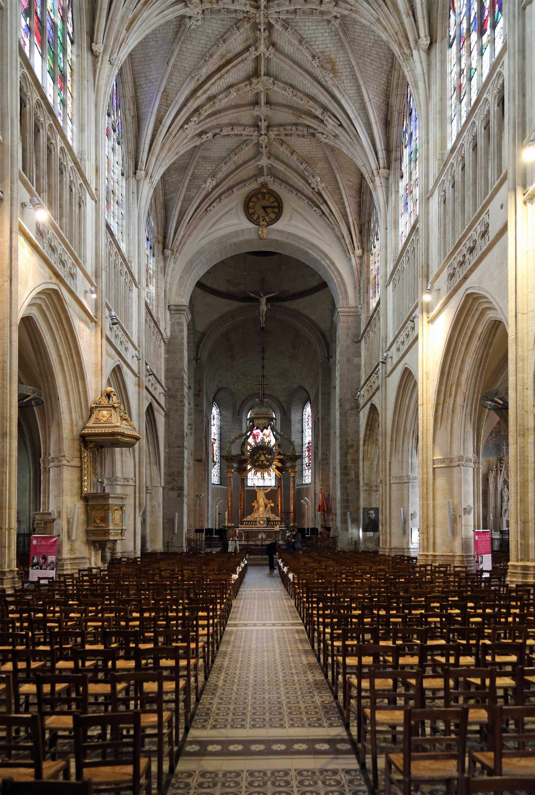 Alençon (France): interior of the Notre-Dame church